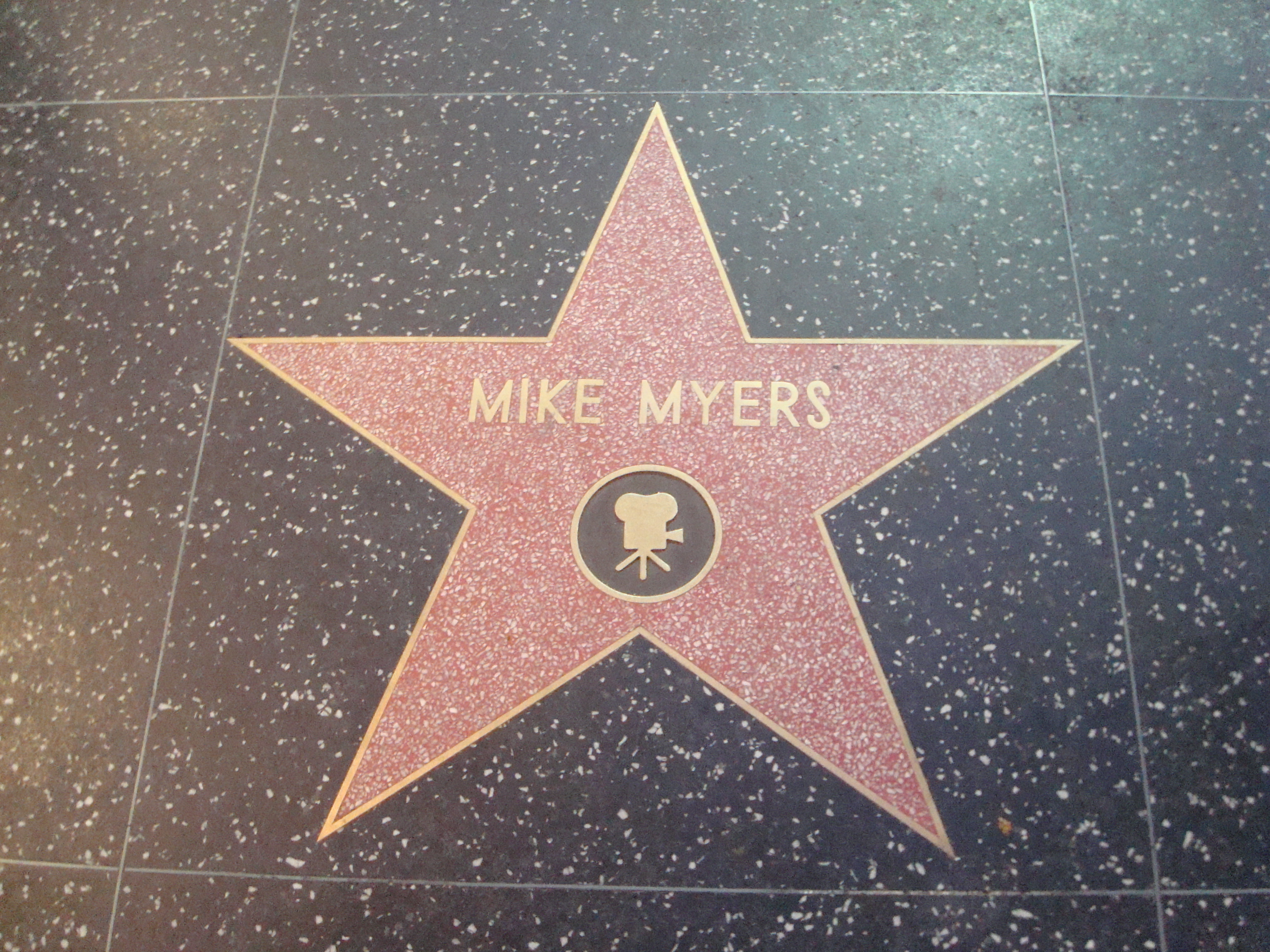 Mike Myers's star on the Hollywood Walk of Fame in Hollywood, Los Angeles, California.